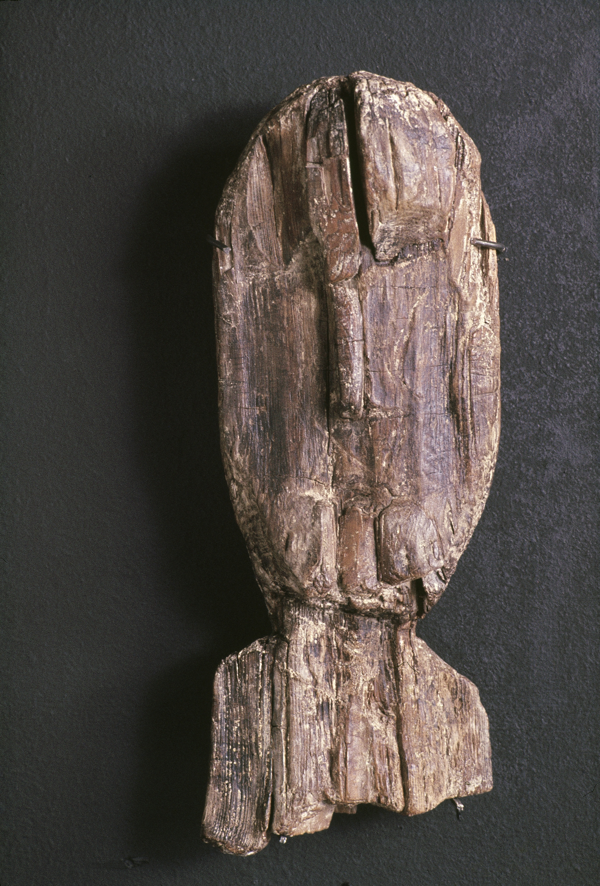 Wooden stoneage figure found from Pohjankuru, Finland.